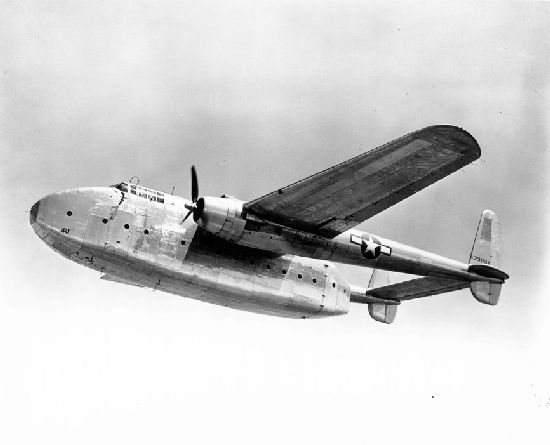 Catalog #: 00013626 Manufacturer: Fairchild Designation: C-82 Official Nickname: Packet Notes: Repository: San Diego Air and Space Museum Archive